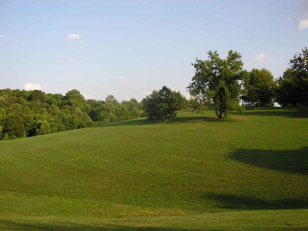 Cherokee Park in Louisville Kentucky. Photo by me in 2005.